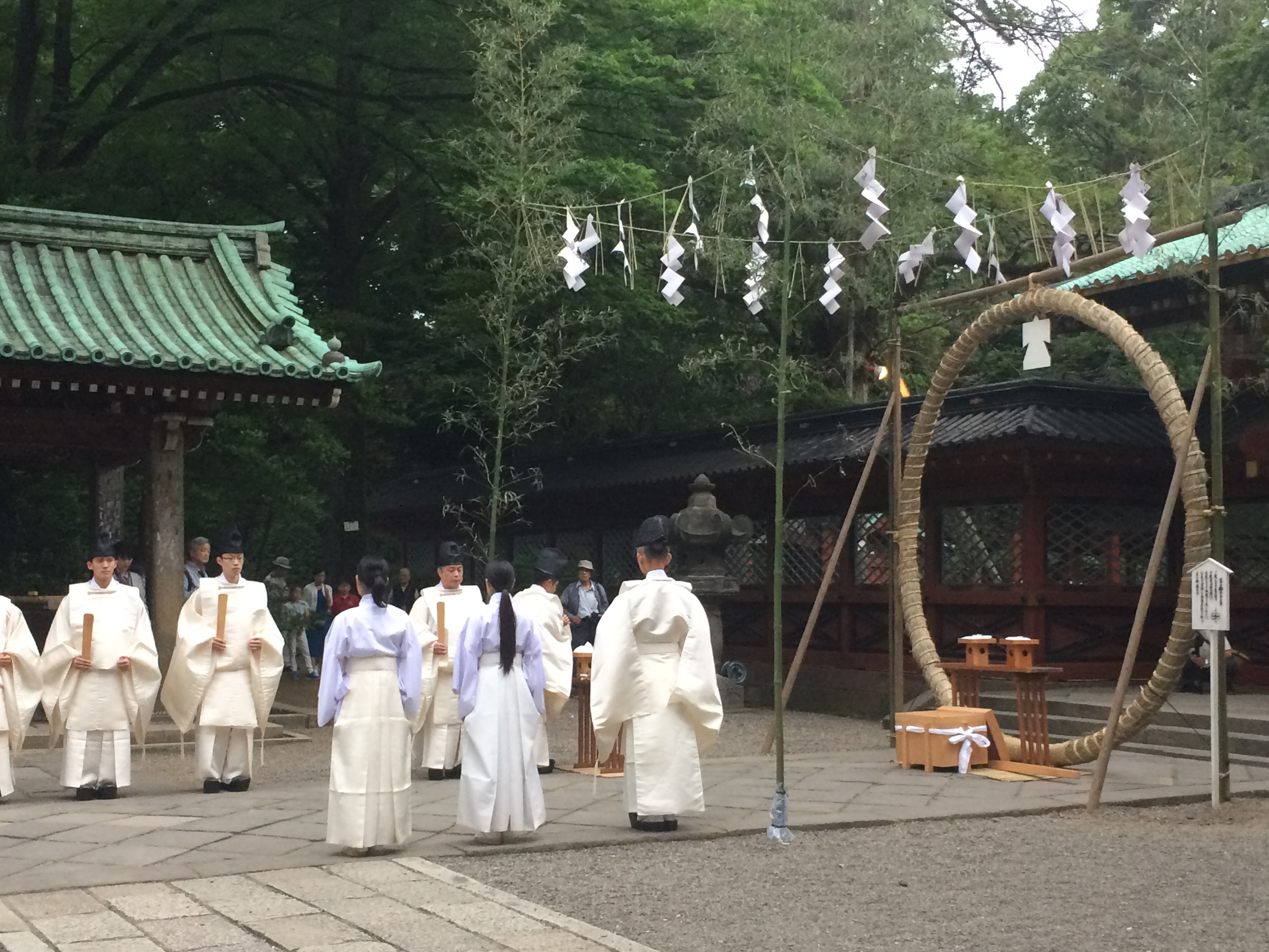 根津神社 大祓 芽の輪 Nezu jinja, ōharai, me no wa, Shinto purification ring [Thanks to Y's lens)